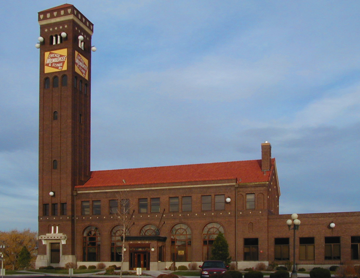 View of former Chicago, Milwaukee, & St. Paul Railway (Milwaukee Road) passenger station, Great Falls, Montana, USA.